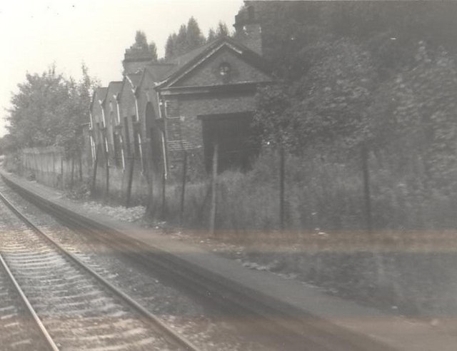 Hazelwell Station, near Kings Heath, Birmingham During early days of Birmingham's Cross-city rail service, many trains from Longbridge would go directly from Kings Norton to New Street via the freight line through Kings Heath. This enabled additional rolling stock to reach Birmingham without stacking up through Bournville and University. The benefit to us railway photographers were rare views of former passenger stations on this ex-Midland Railway route. Hazelwell Station, closed in 1941, the southern platform and buildings are in this photo, was accessed from Cartland Road, situated between Kings Heath and Kings Norton. These buildings have since been dismantled. The good news is the line is hoped to be reopened in future to passengers, when funding arrives for a new loop line to take trains to Bordesley and Moor Street instead of through St Andrews junction to New Street.